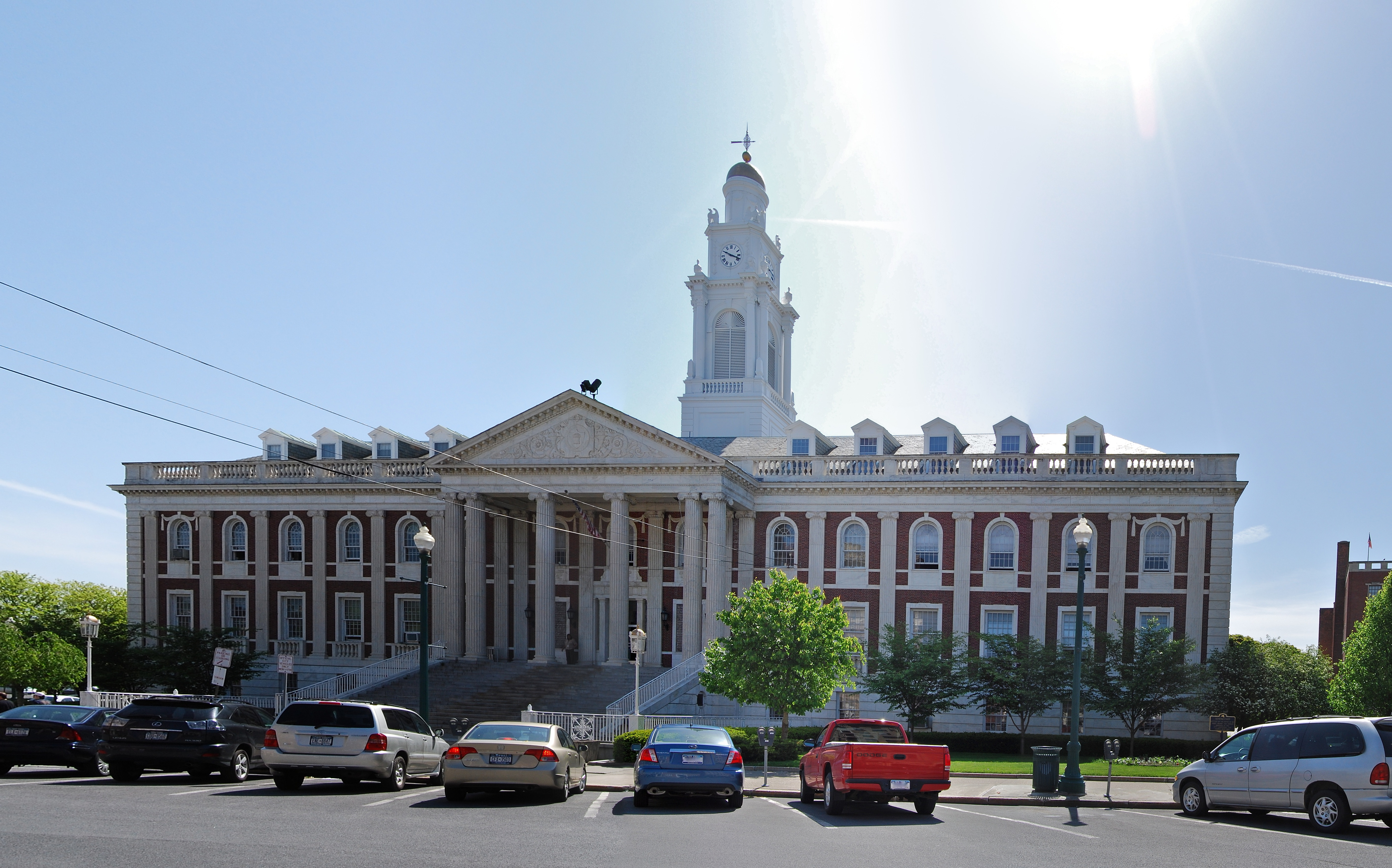 City Hall of Schenectady, New York, United States